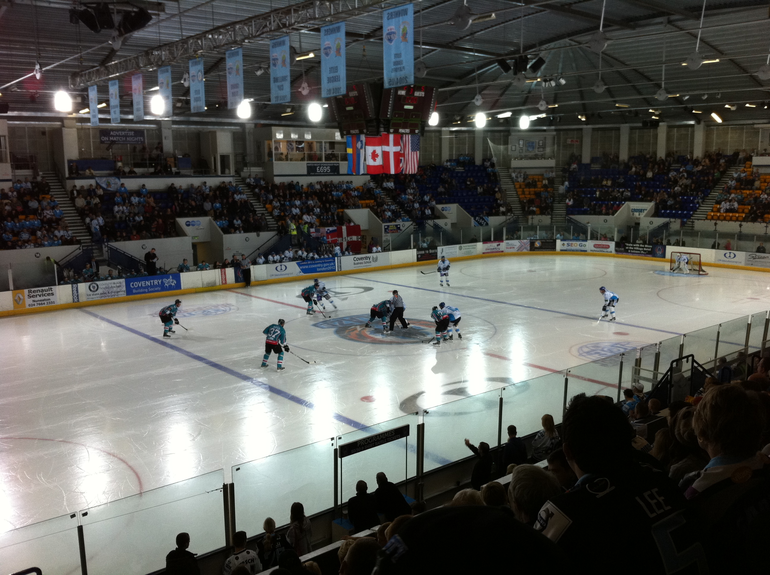 coventry blaze vs belfast giants at skydome arena 9-10-11